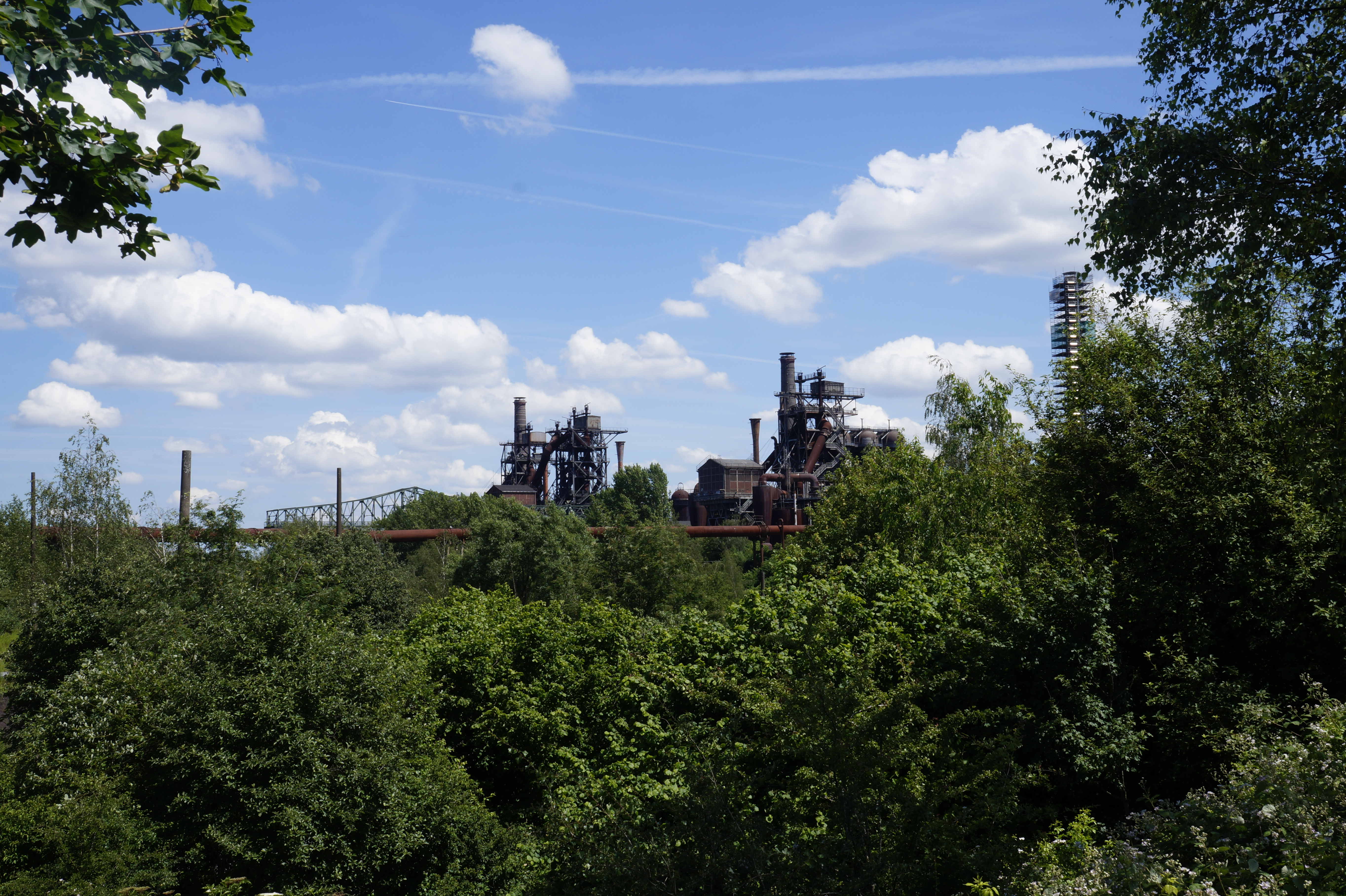 Industrial Heritage